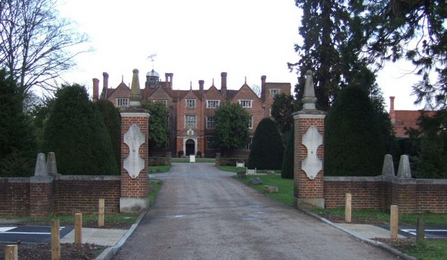 Great Fosters country hotel, near Egham, Surrey, England, UK. The building was once the seat of Sir John Doddridge, a Justice of the King's Bench, and his epitaph in Exeter Cathedral states he died there in 1628.